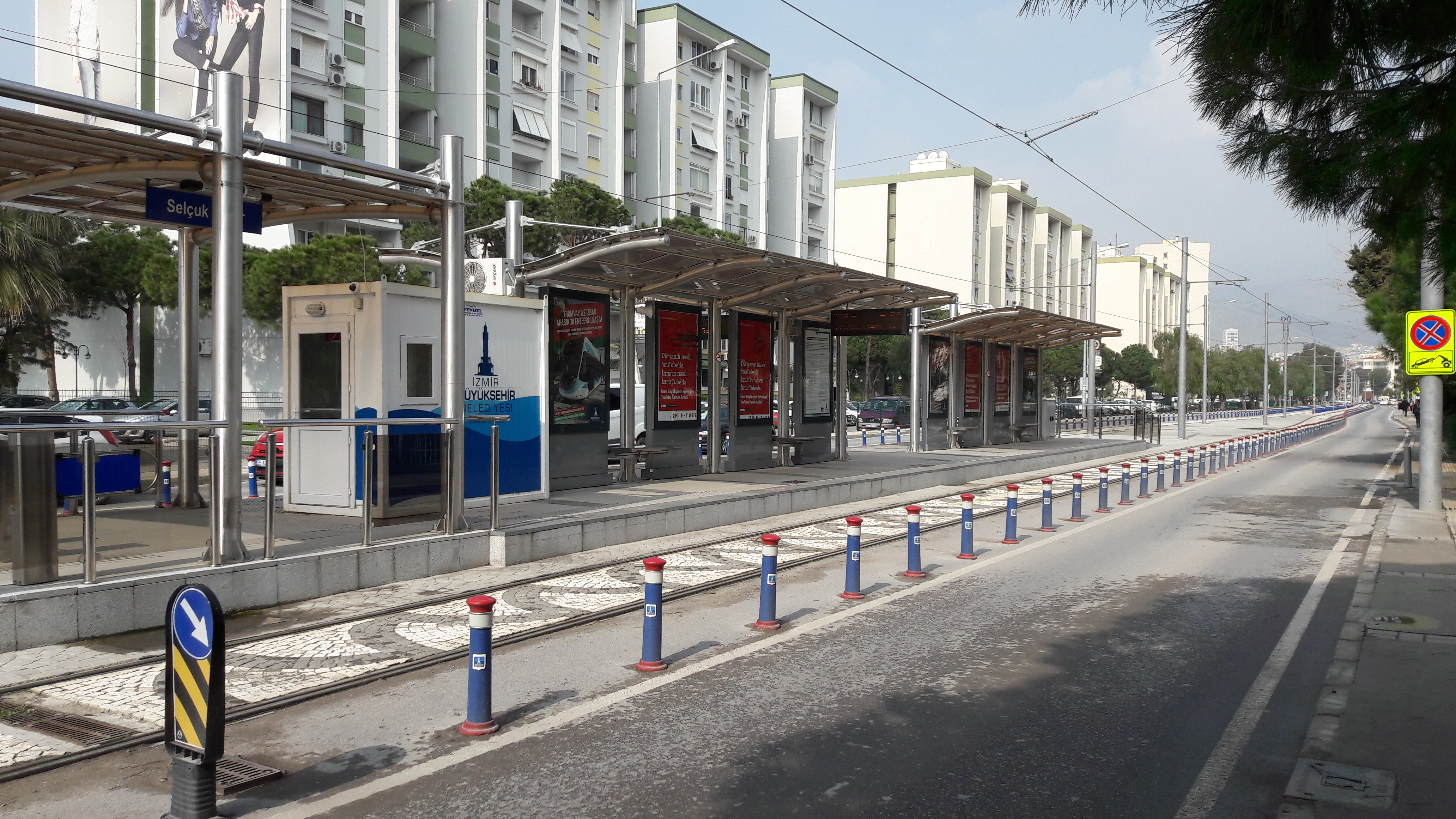 Selcuk Yasar tram station.